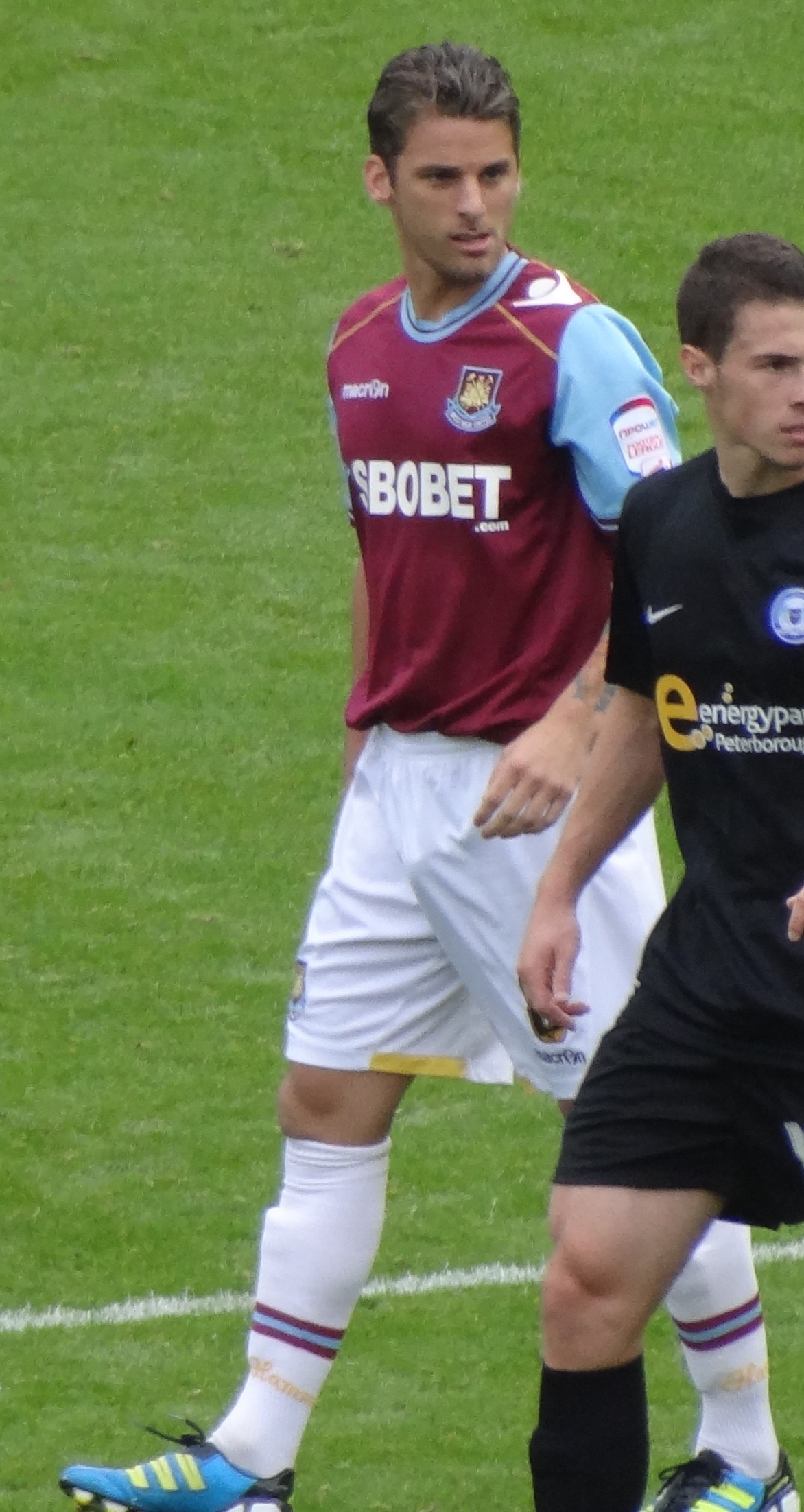 David Bentley from West Ham vs Peterborough